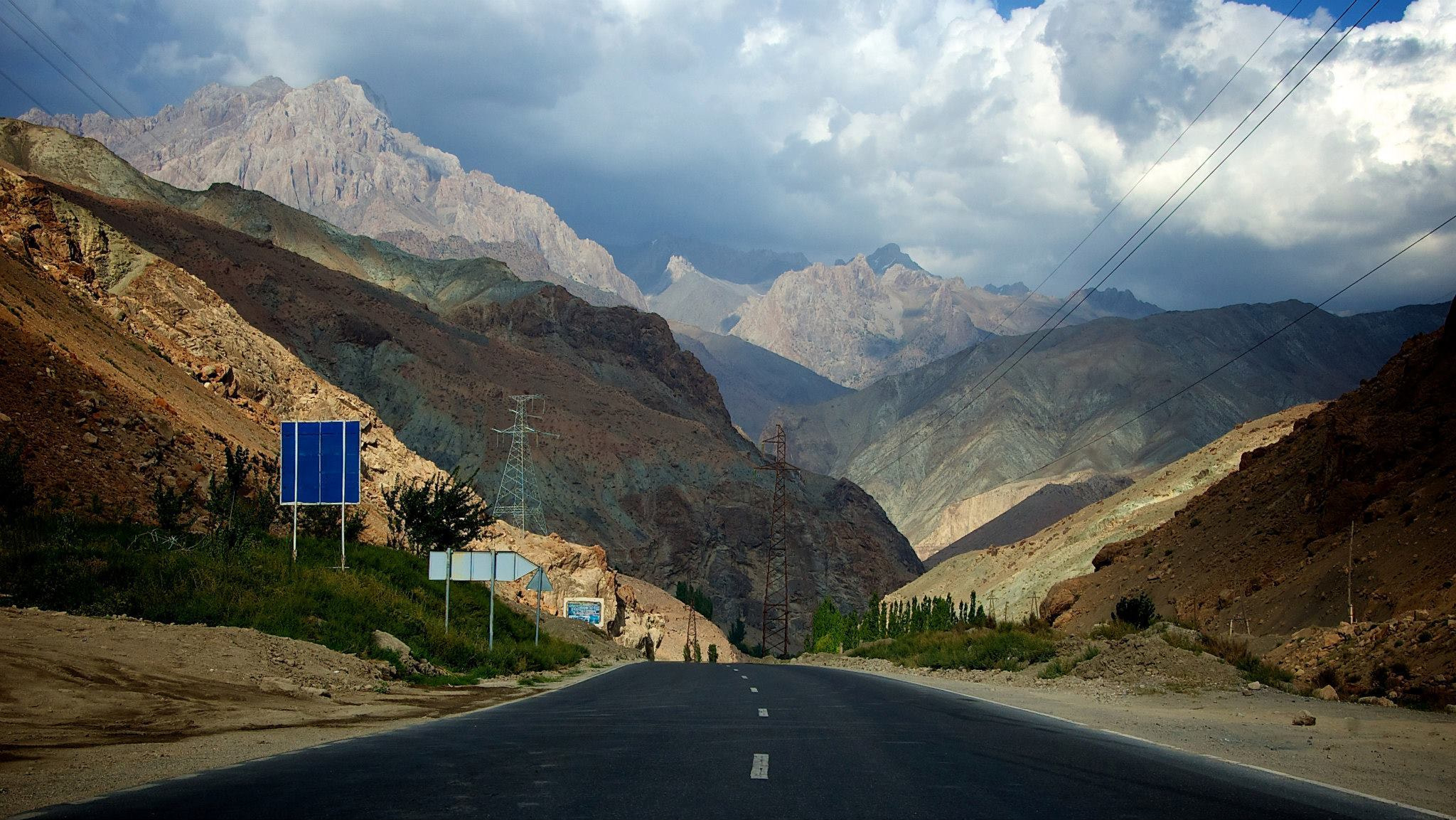 500px provided description: Mountain Road [#tajikistan ,#fann mountains]